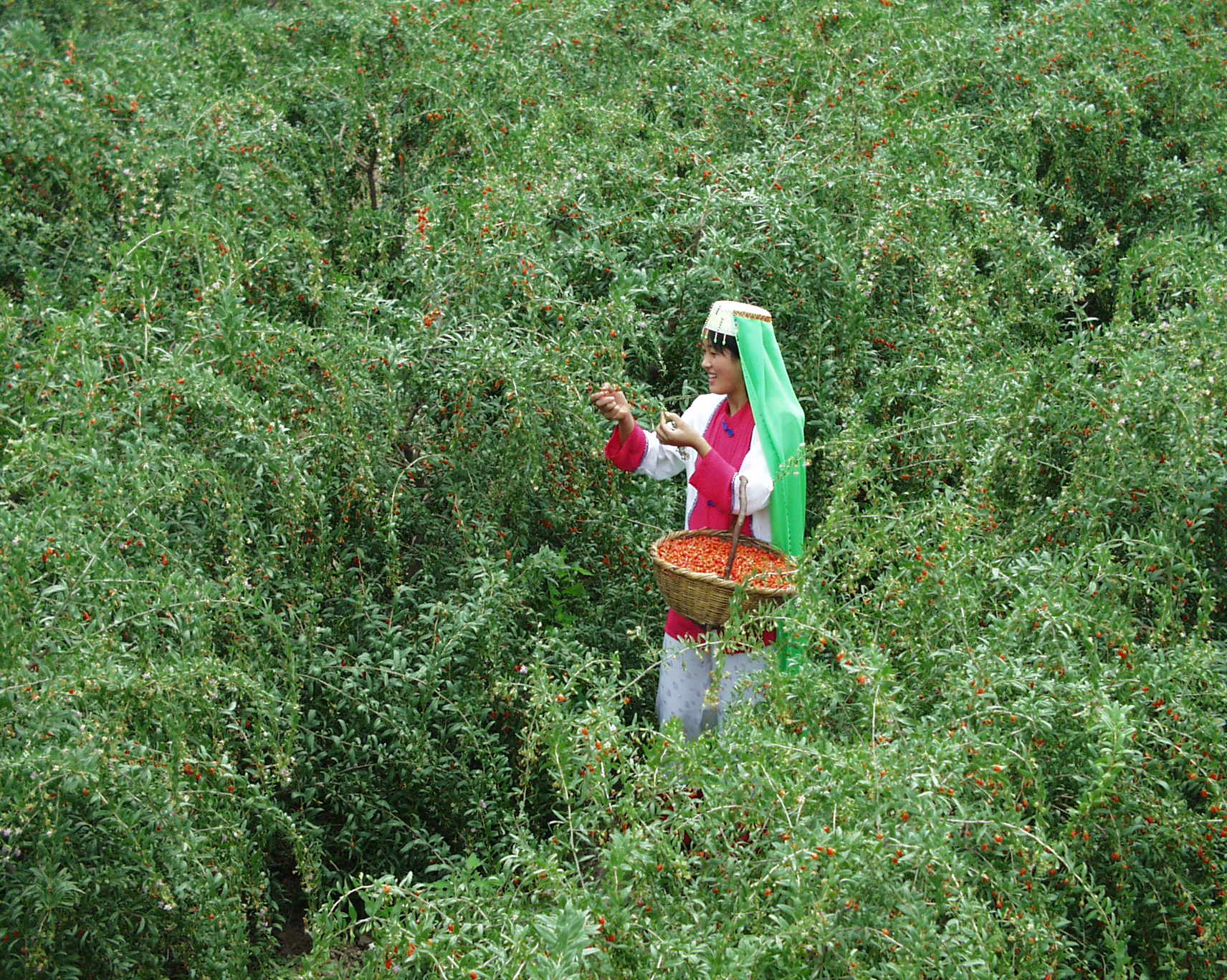 ceremonial picking of wolfberries, Rich Nature farm, Zhongning County, near Wuzhong, Ningxia, China